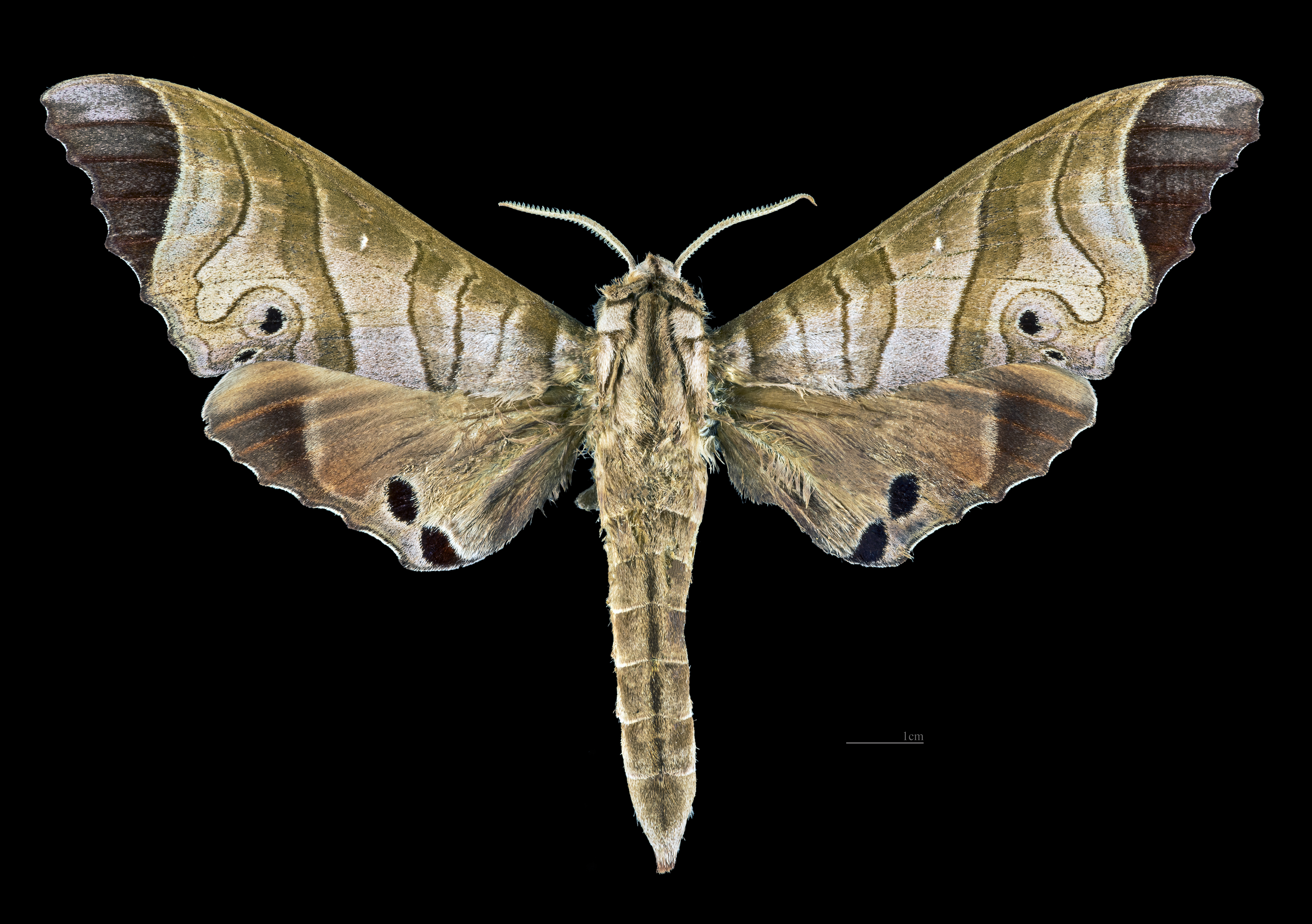 Marumba saishiuana - Dorsal side Collection of the Mathematician Laurent Schwartz